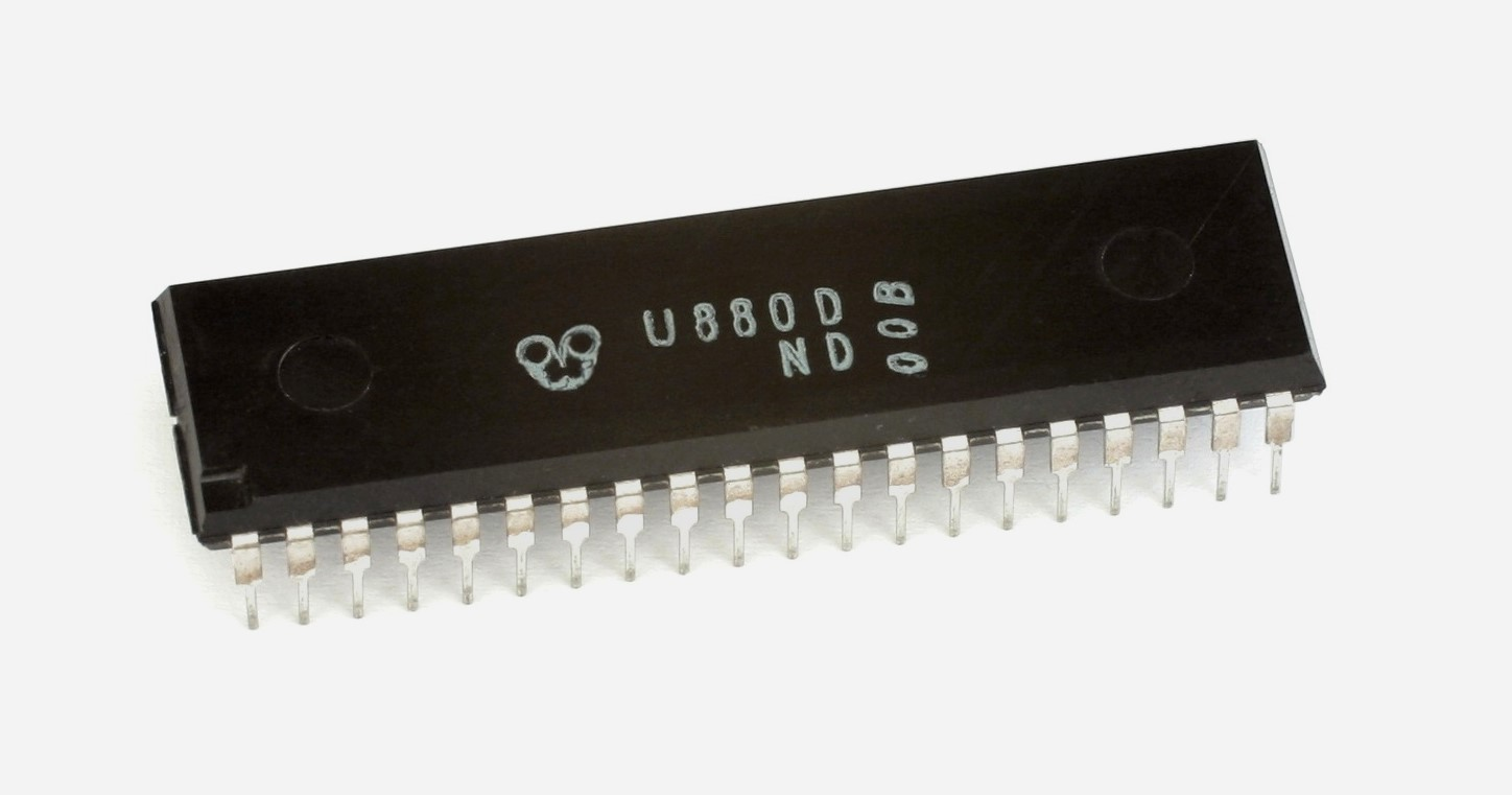 U880D microprocessor. Contrast enhancements and additional margin using KL_KME_U880D.jpg